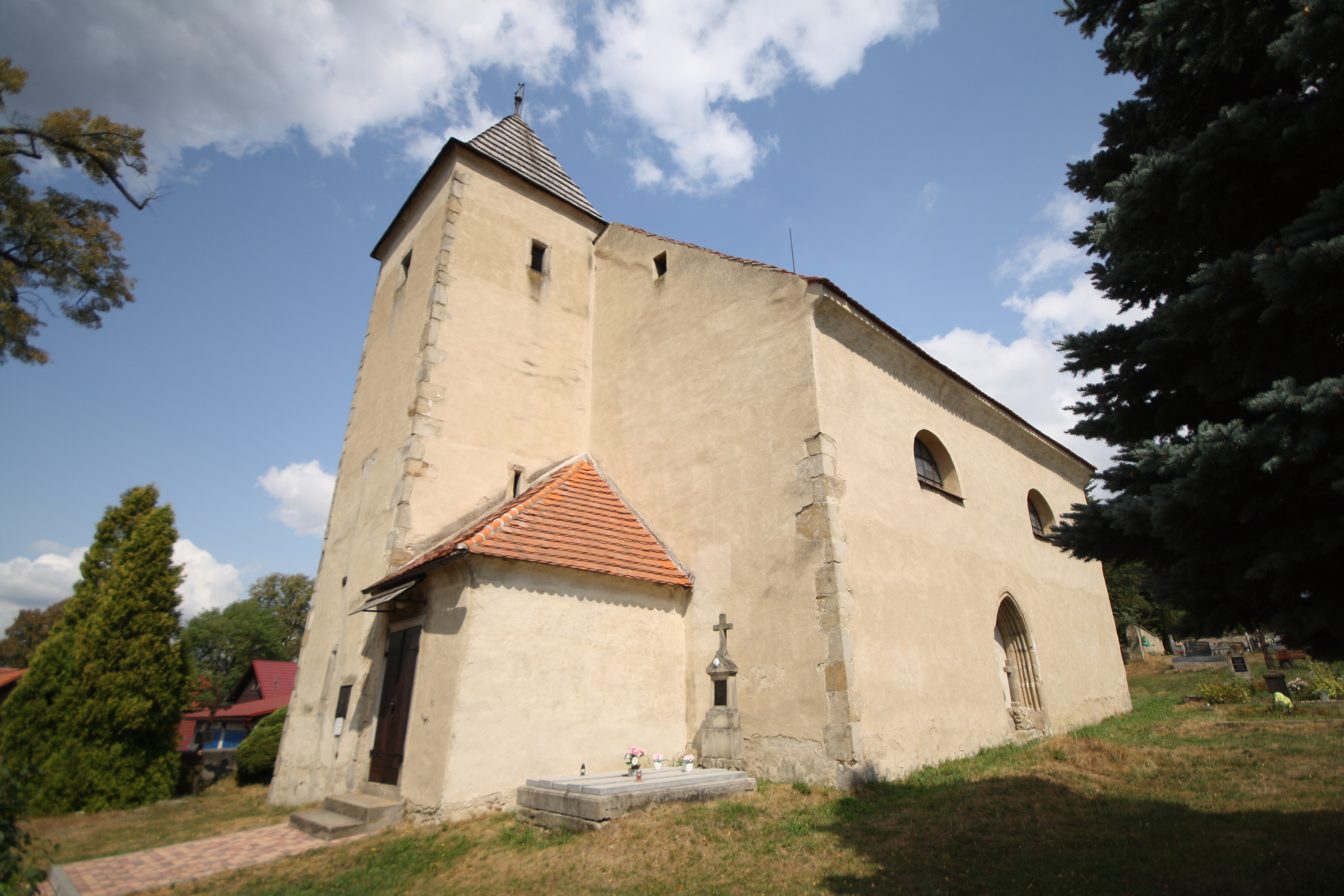 Overview of Church of Saint Lucy in Ježov, Pelhřimov District.